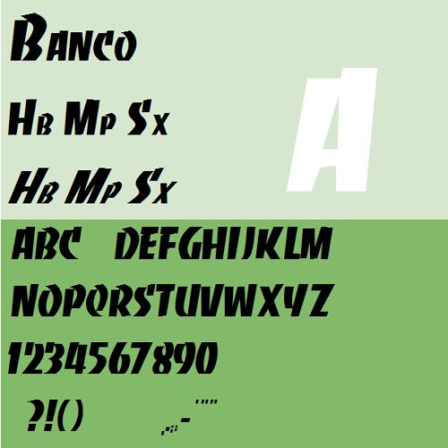 Banco Typeface